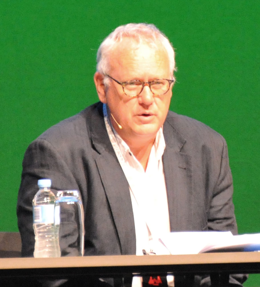 Derek Guille chairing a discussion panel at the 2012 Global Atheist Convention in Melbourne on 14 April 2012